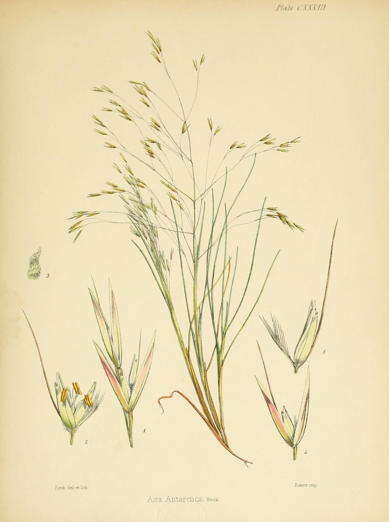 jpg of Plate CXXXIII of Hooker's Flora Anatarctica. Aira antarctica Hook.